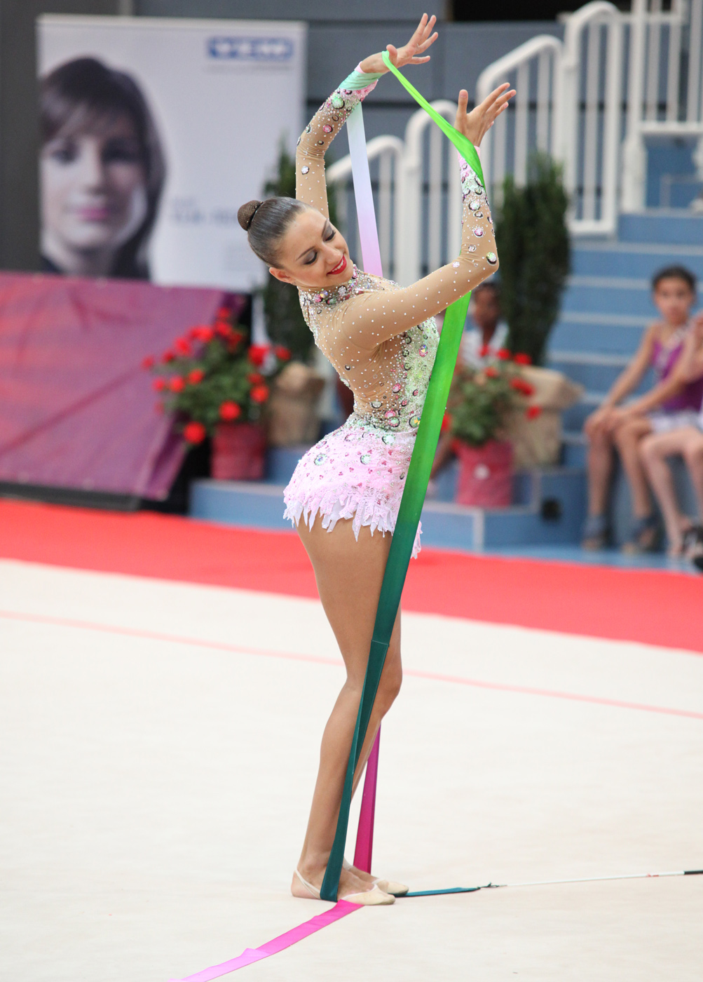 Grand Prix Rhythmic Gymnastics in Austria (Hard) 2012. Jewgenija KanajewaOlympic individual gold medalist.